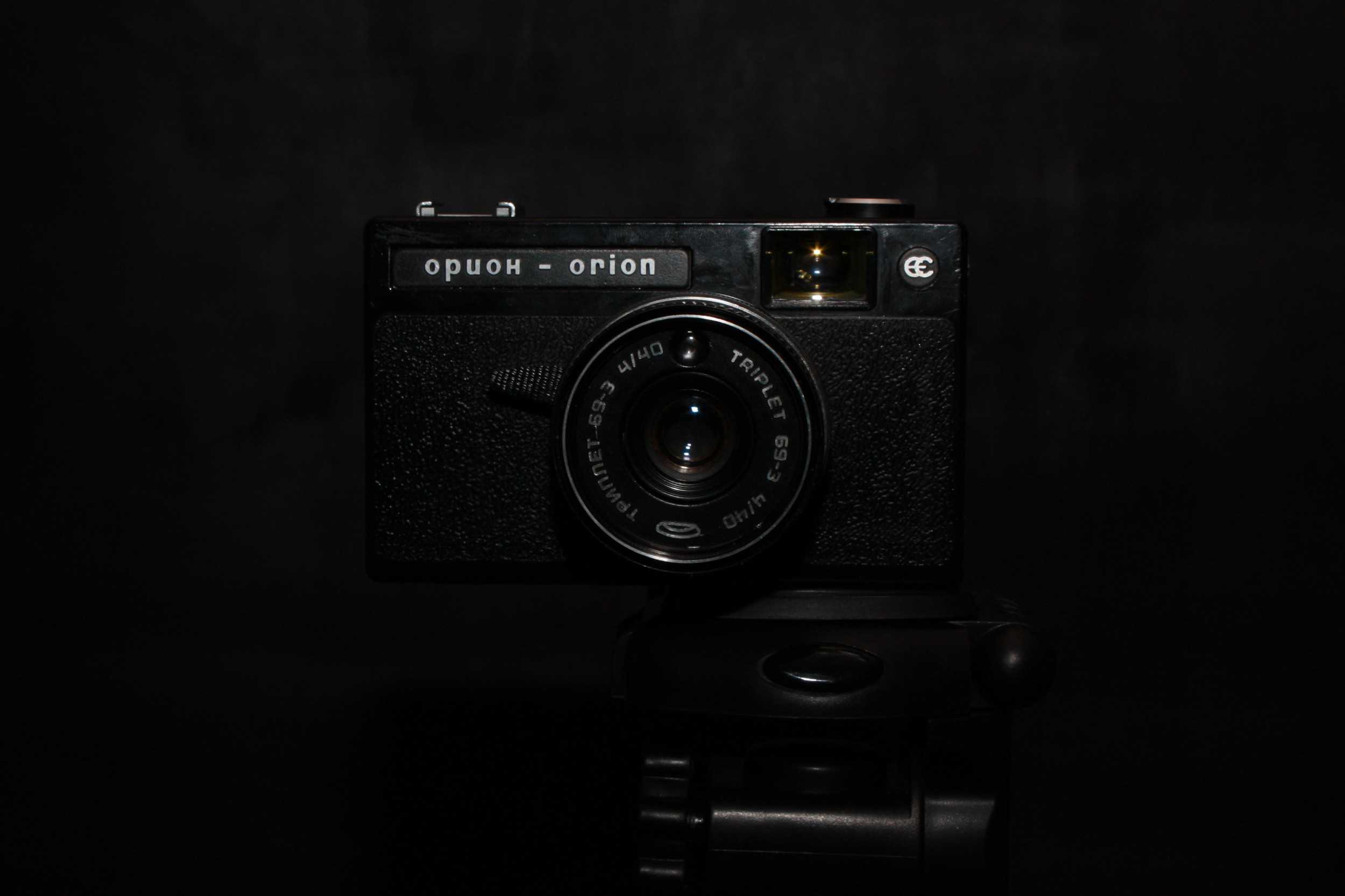 BelOMO Orion-EE